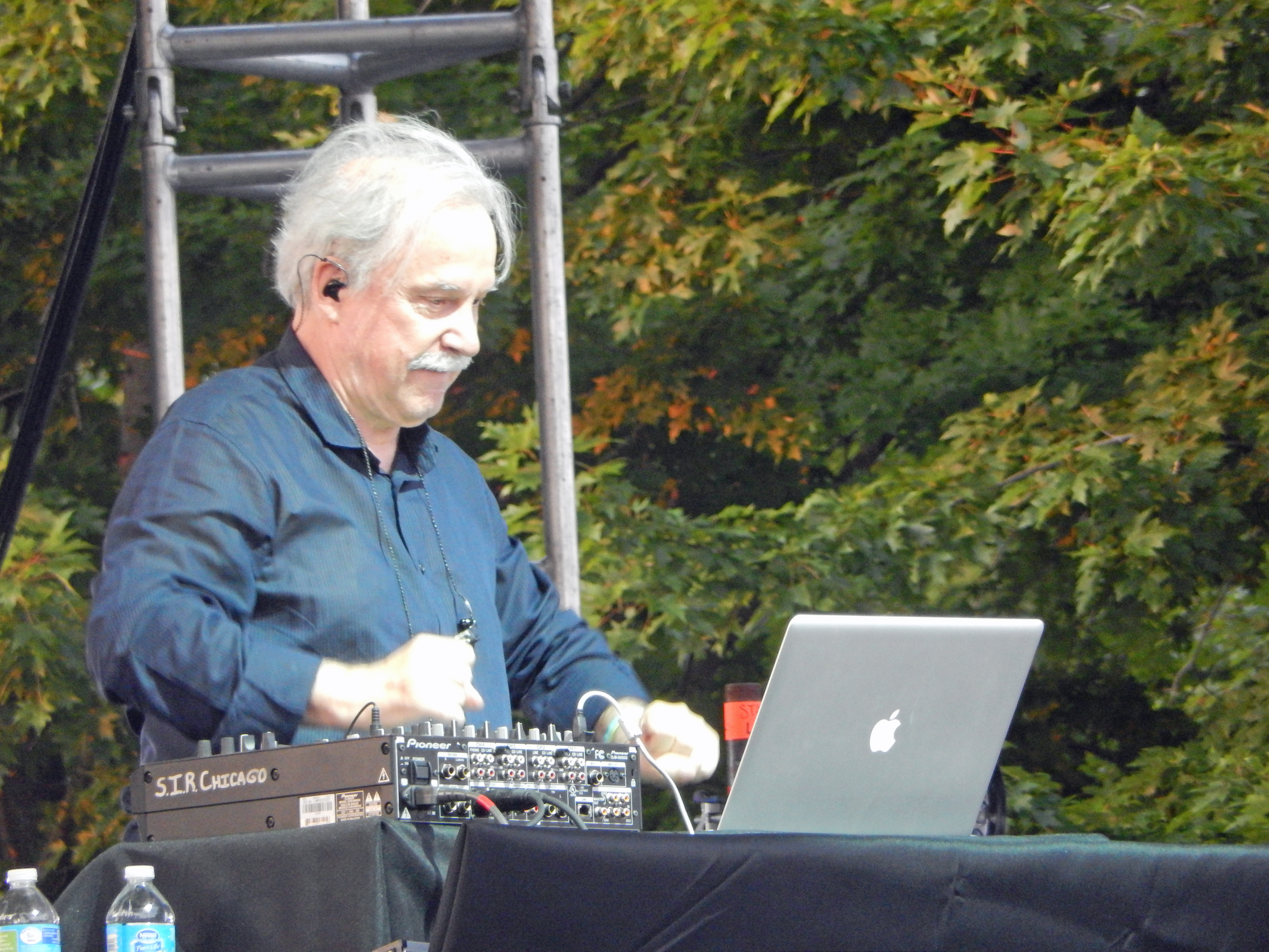 Italian DJ and record producer Giorgio Moroder performing at the Pitchfork Music Festival on July 18, 2014 in Chicago, Illinois.